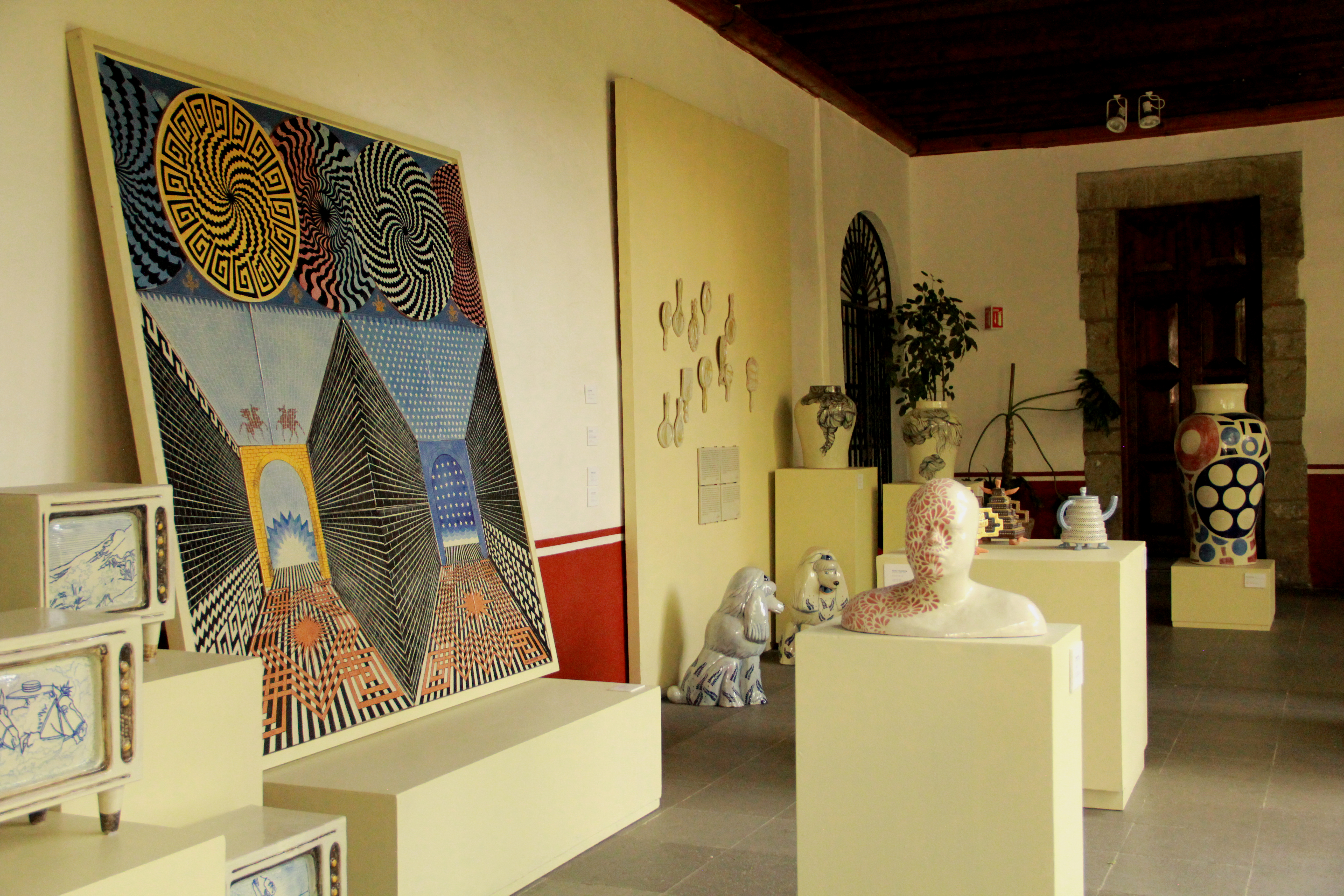 El cinco de mayo de 1862. Uriarte Talavera Contemporánea at the Franz Mayer Museum, Mexico City, the mural is a work by Pedro Friedeberg